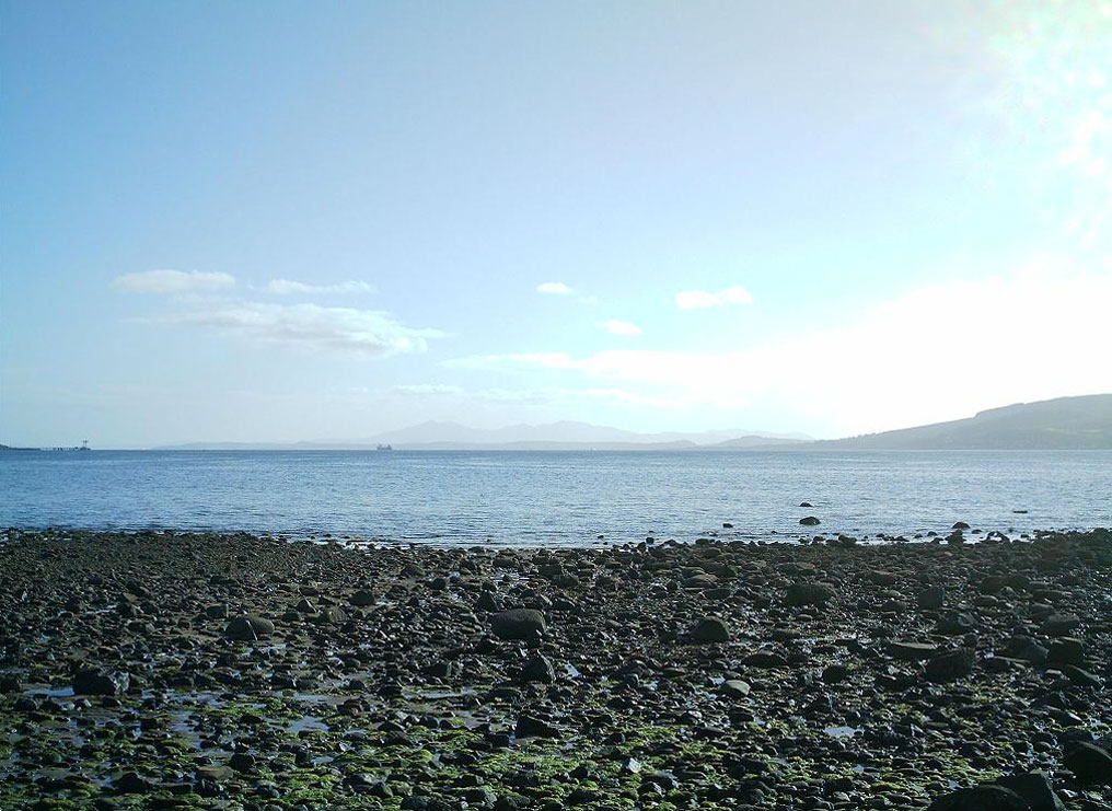 Lunderston Bay, view to the south of the Firth of Clyde taken by myself, feel free to use